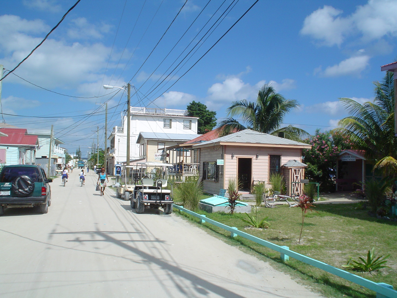 Caye Caulker main street